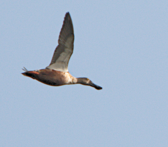 Name: Anas clypeata. Family: Anatidae. Location: Münster, NRW, Germany